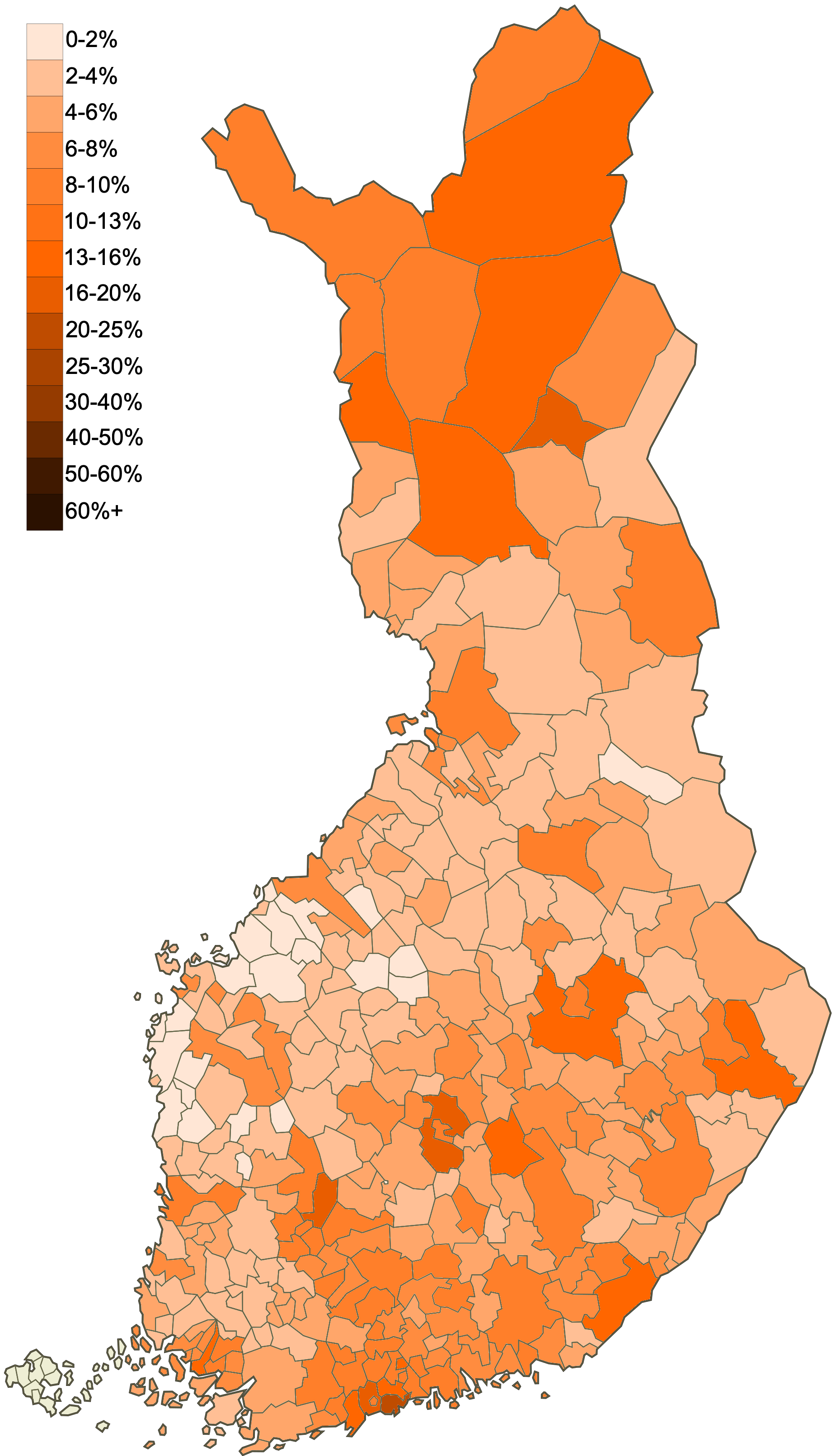 Support for the Green League by municipality in the election for the Eduskunta.